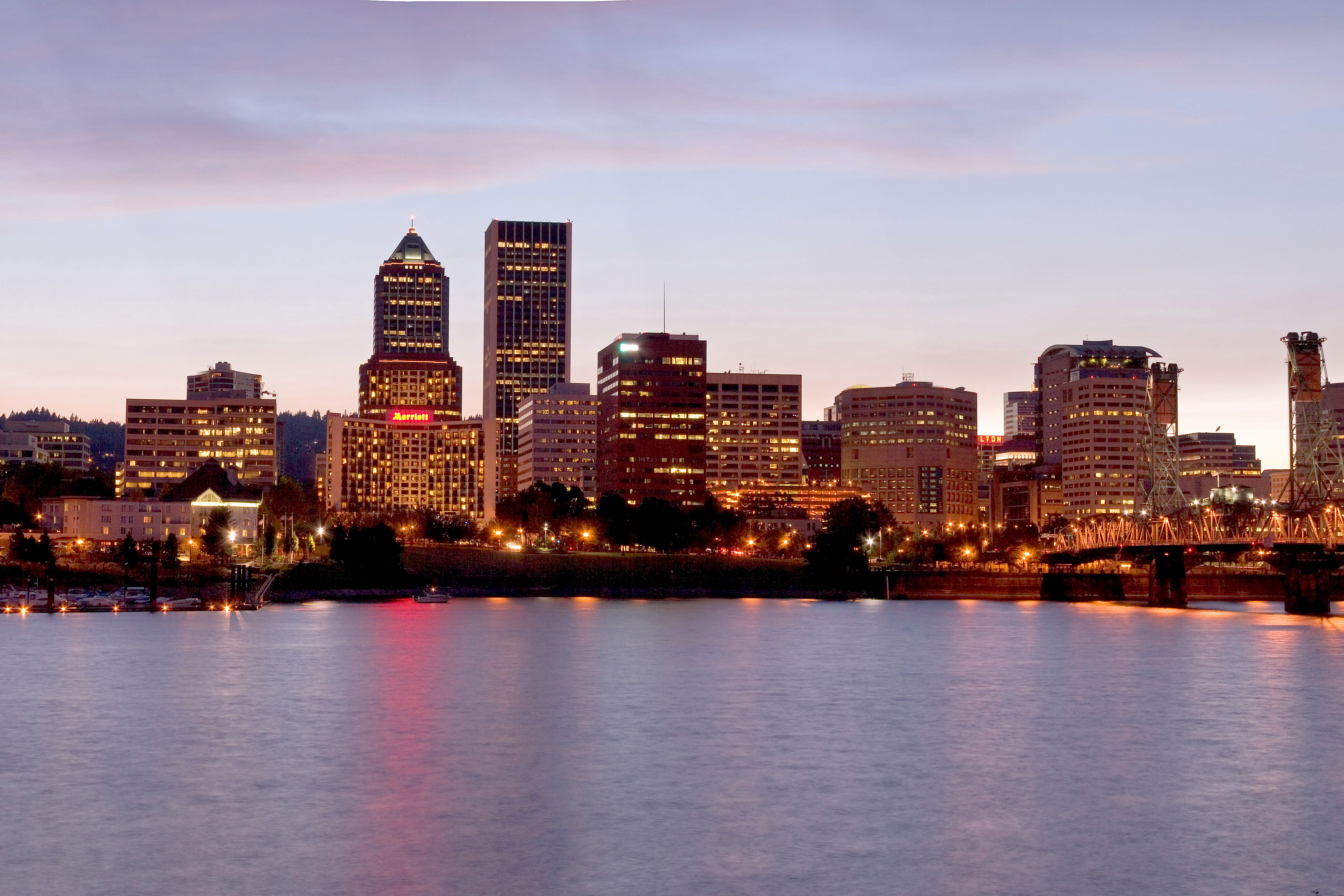 Portland skyline at night from across the Willamette River